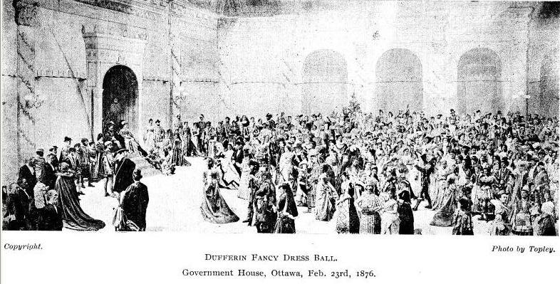 The Earl of Dufferin 3rd Governor General of Canada Fancy Dress Ball, Government House, Ottawa Feb. 23rd 1876